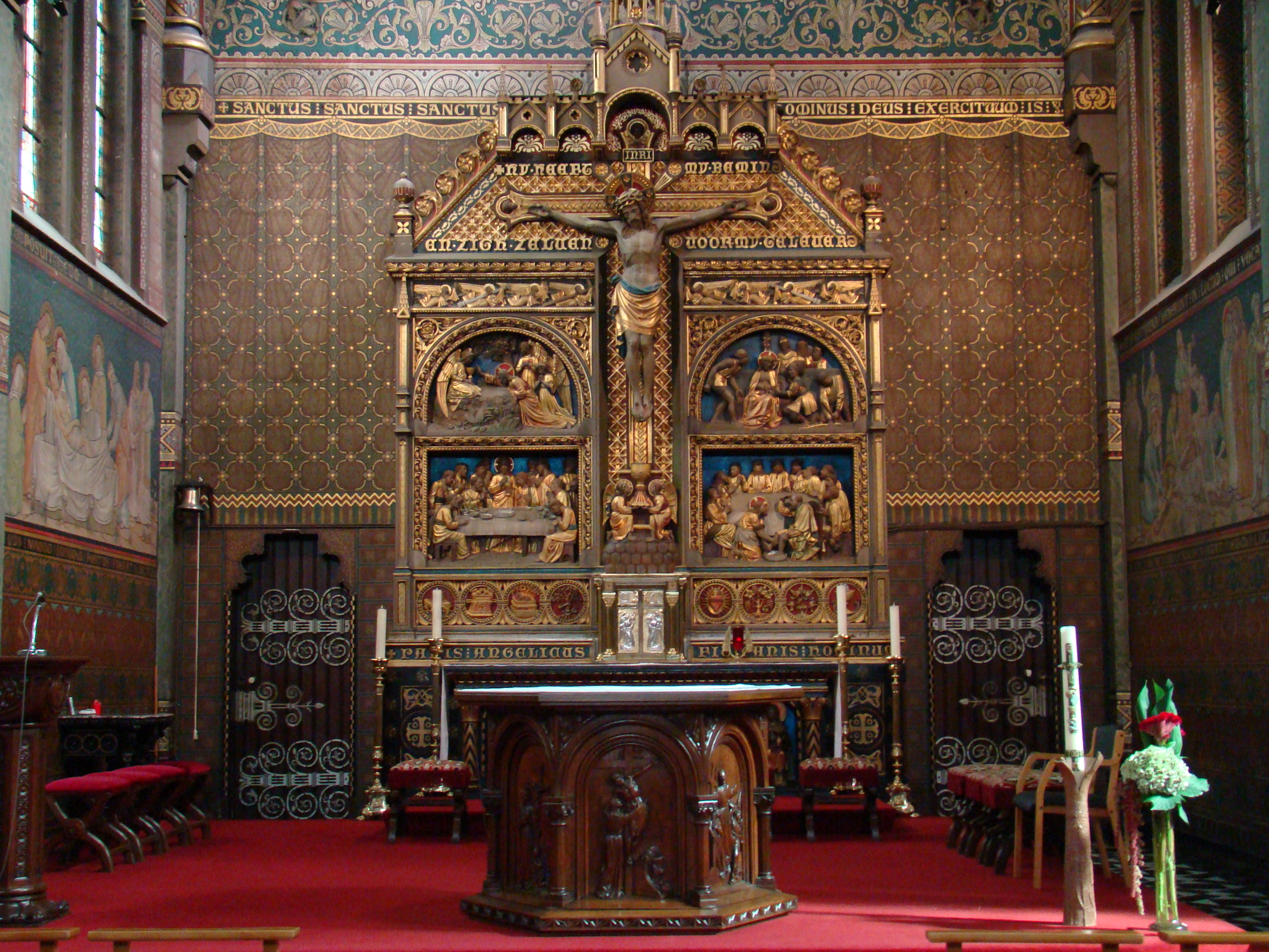 St Antony church Passionists, Kortrijk (West Flanders, Belgium)